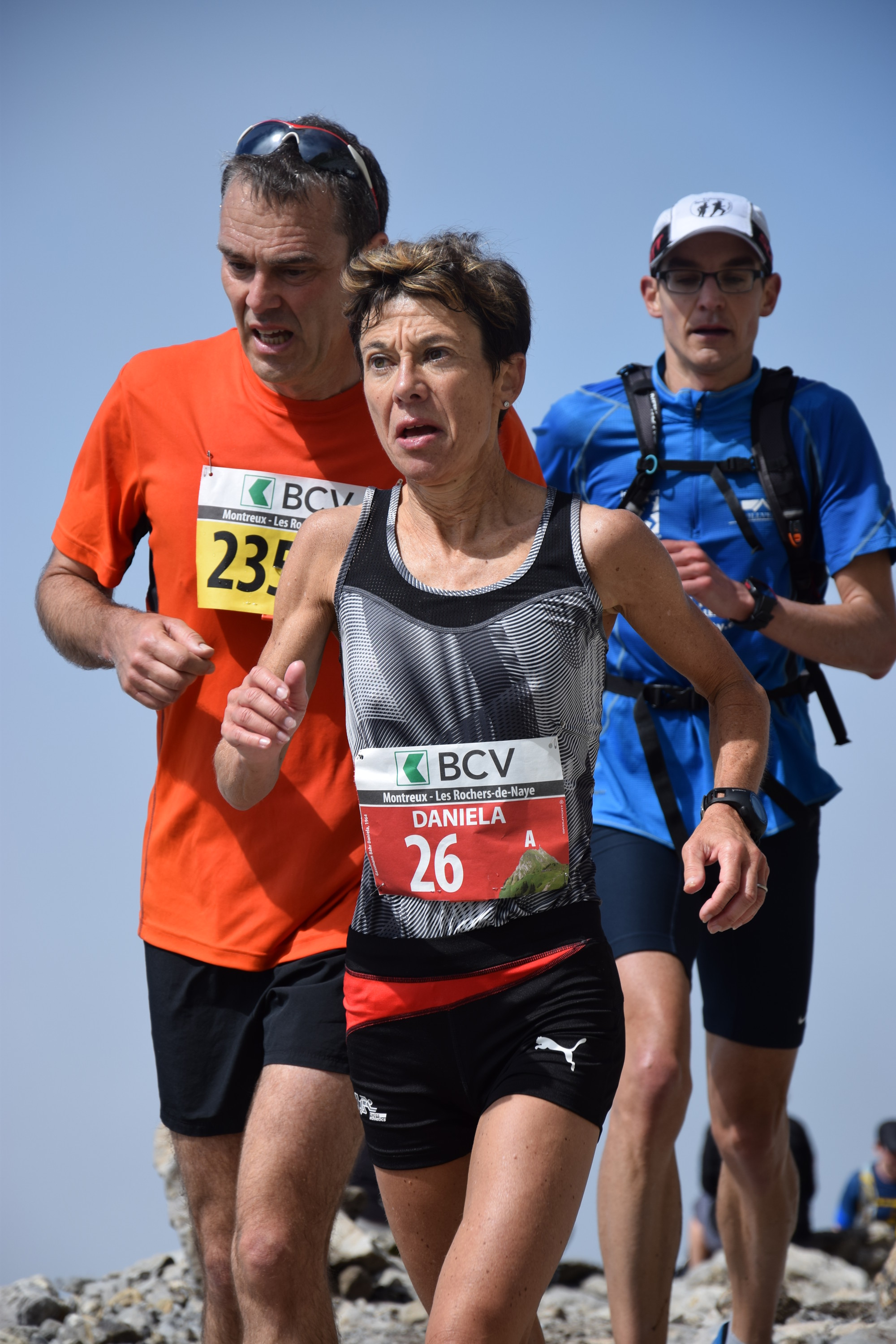 Daniela Gassmann-Bahr at 2016 Montreux-Les-Rochers-de-Naye mountain run